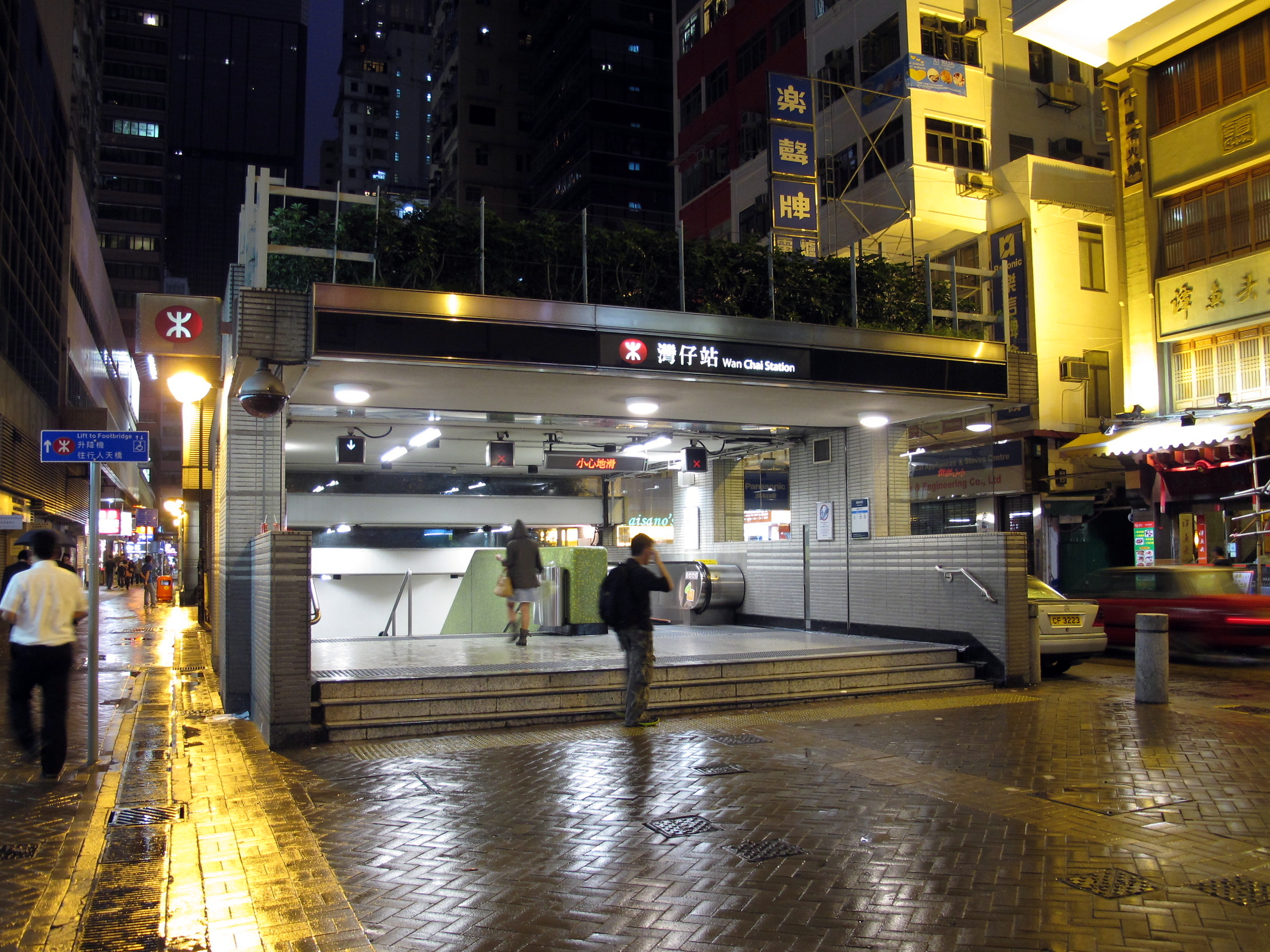 MTR Wan Chai Station Exit A3 港鐵灣仔站A3出口